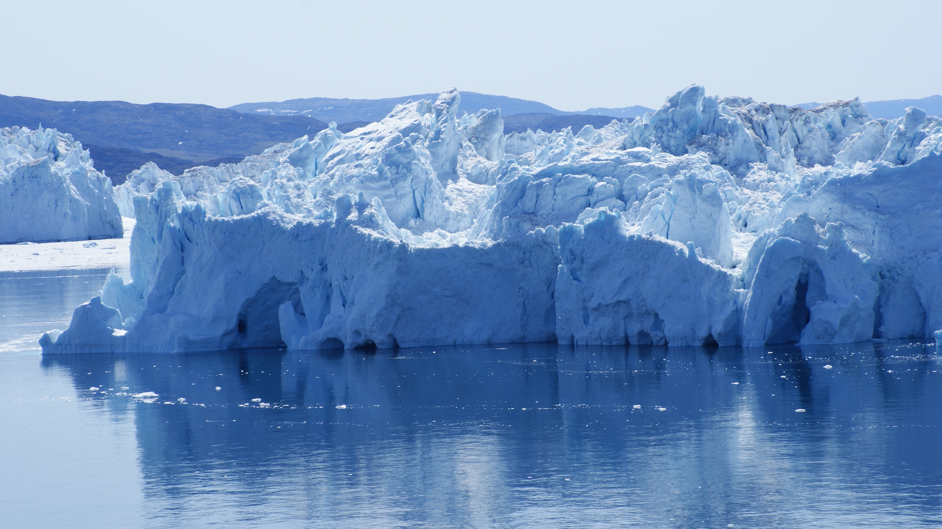 Tormented surfaces of icebergs floating in the Ilulissat Kangerlua fjord, western Greenland. Ilimanaq hills in the background.